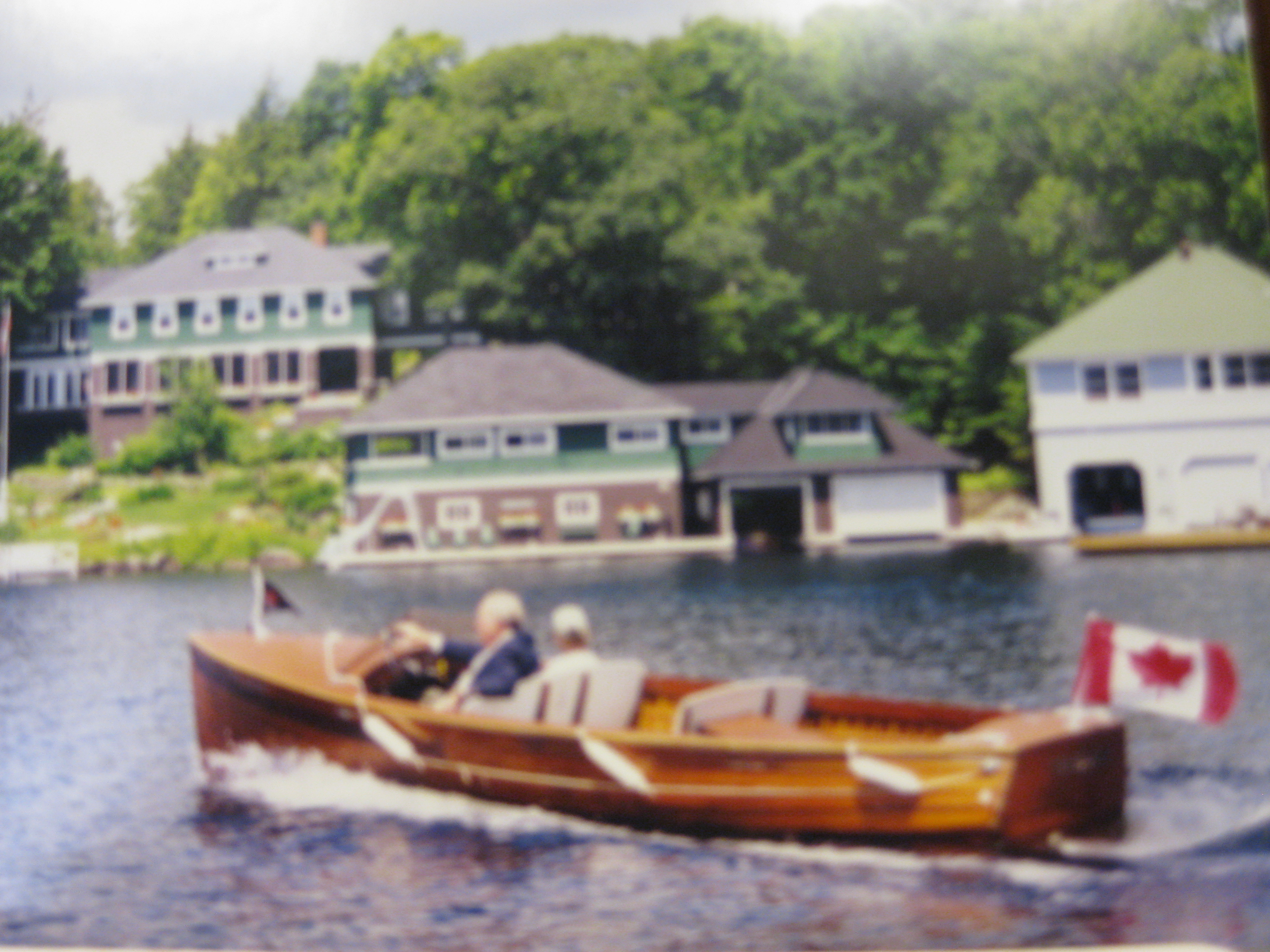 Photograph of a Duke Playmate mahogany runabout, vintage 1952 manufactured by Duke Boats Ltd of Port Carling, Ontario.